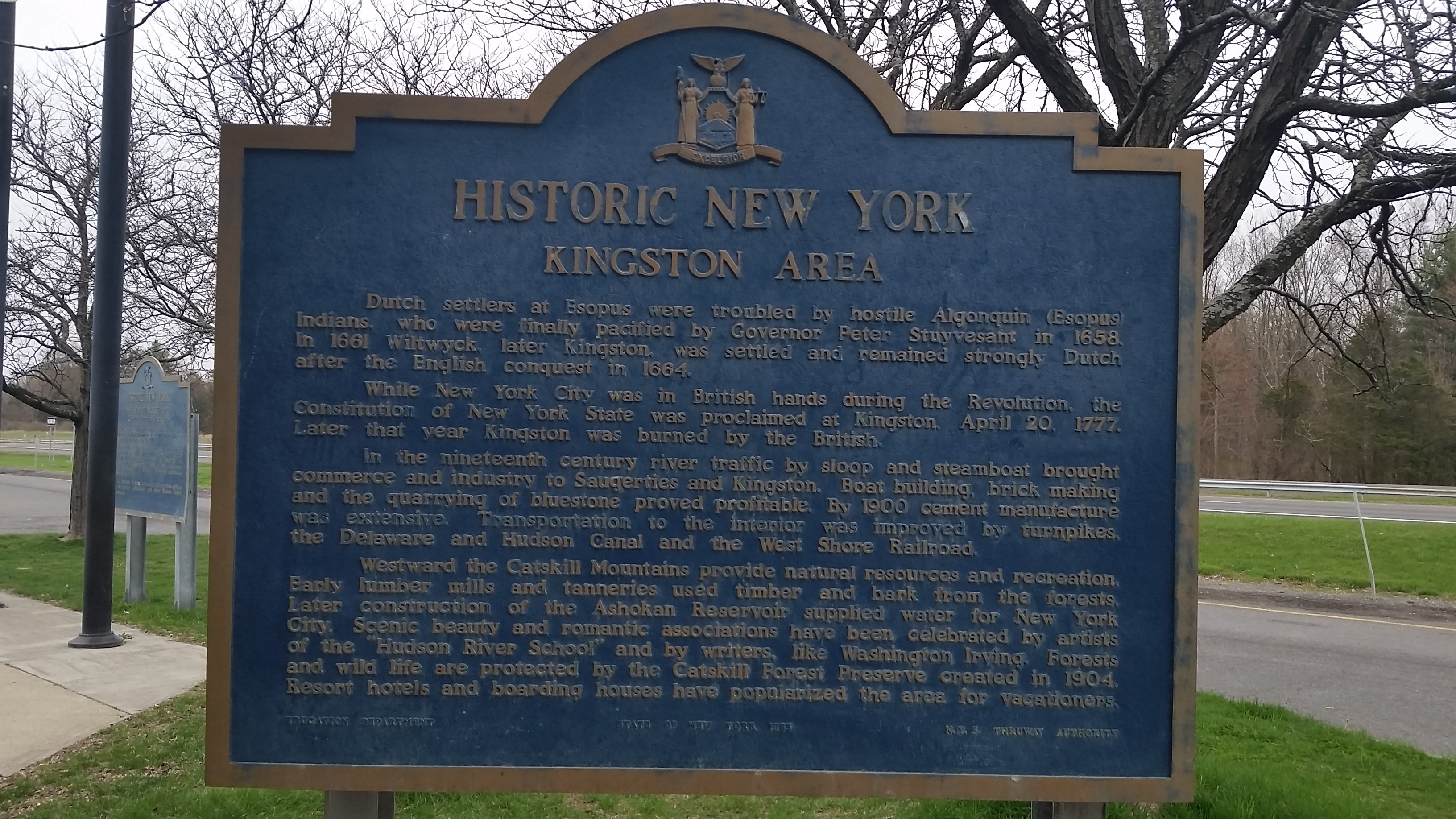 New York State historical marker for the Kingston Area along Interstate 87 north of Kingston. This is one of two markers at this rest stop and it discussed the Kingston Area in general.